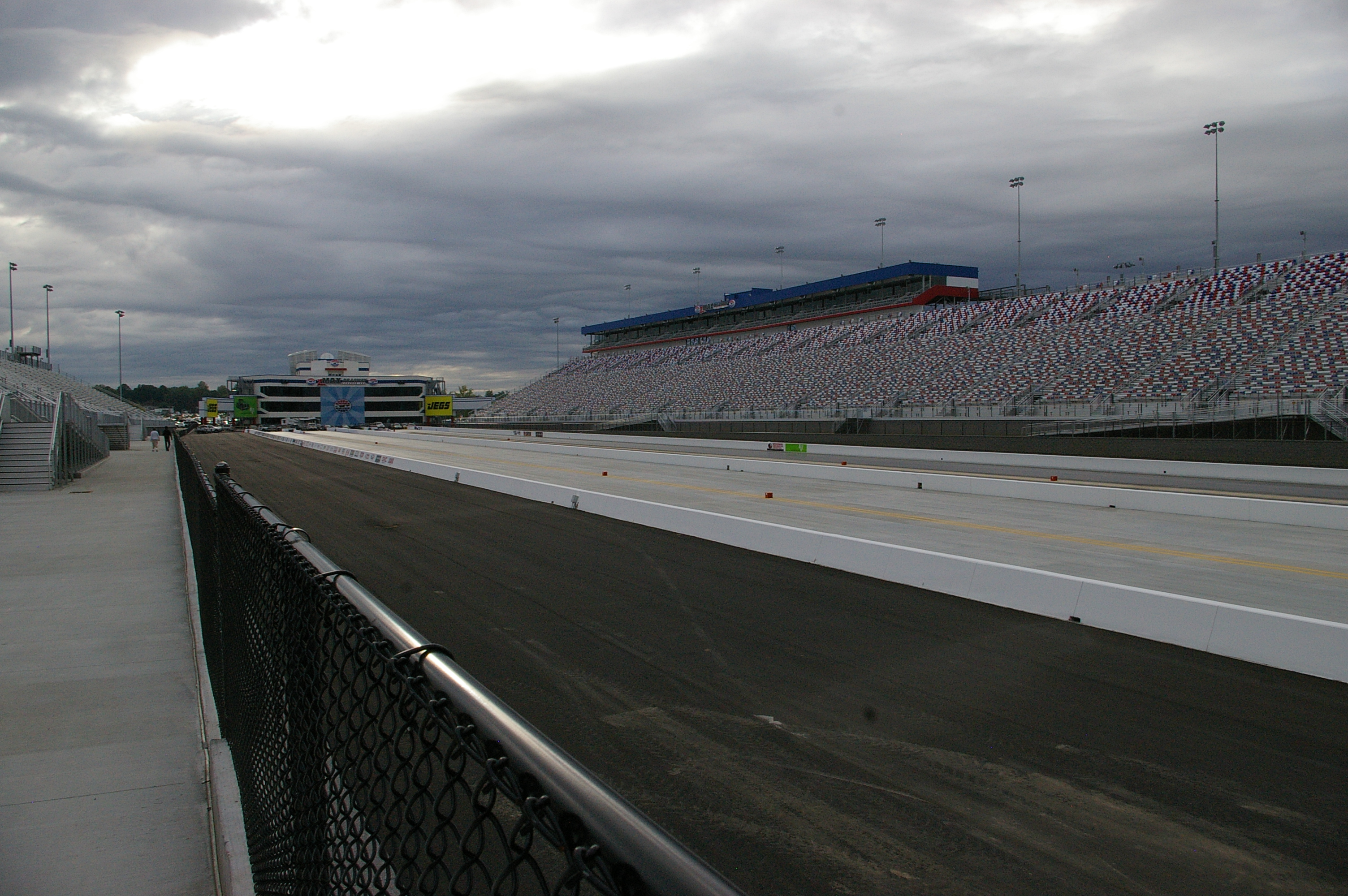 zMAX Dragway at Lowe's Motor Speedway